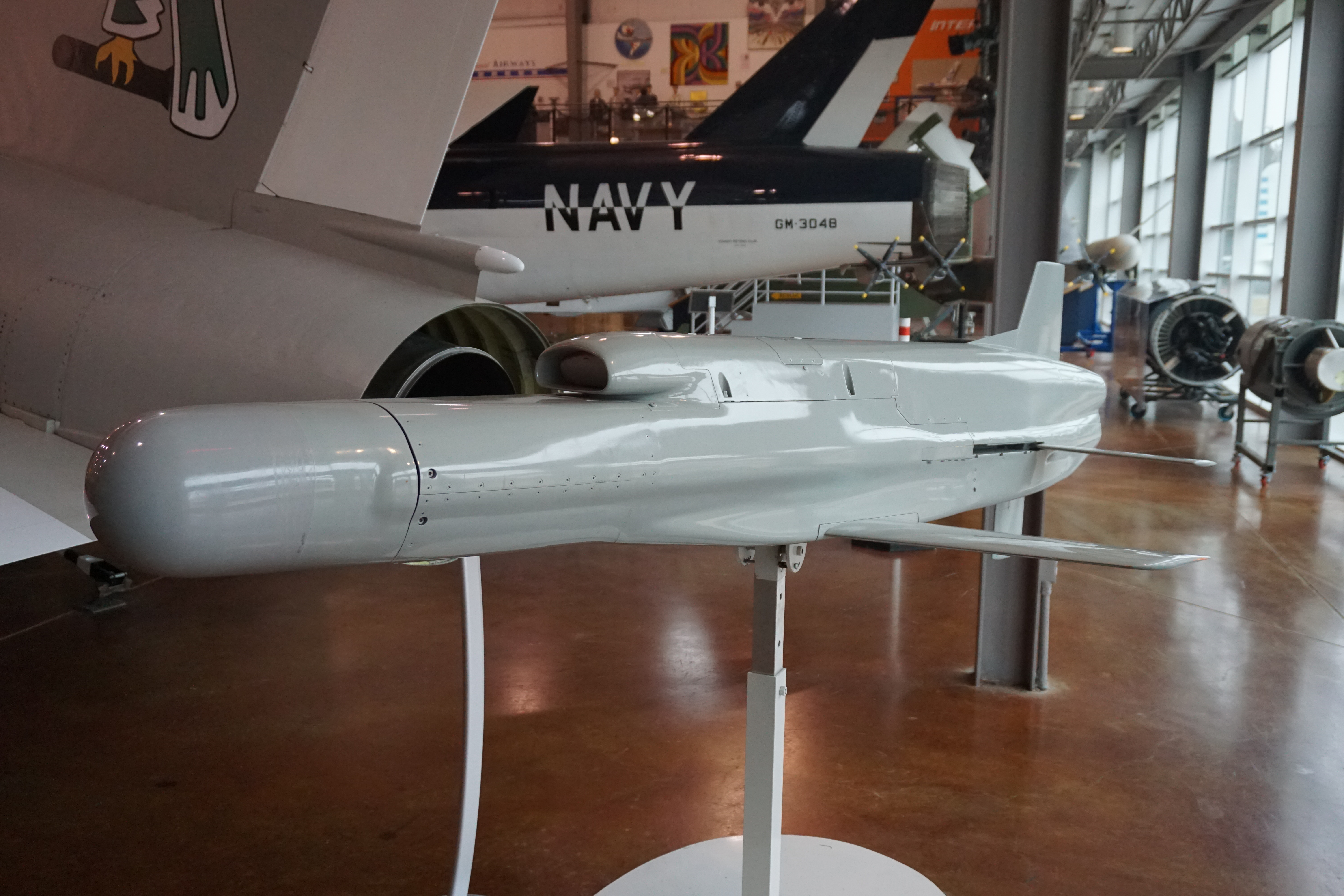 A Northrop AGM-136 Tacit Rainbow missile on display at the Frontiers of Flight Museum at Dallas Love Field in Dallas, Texas (United States).